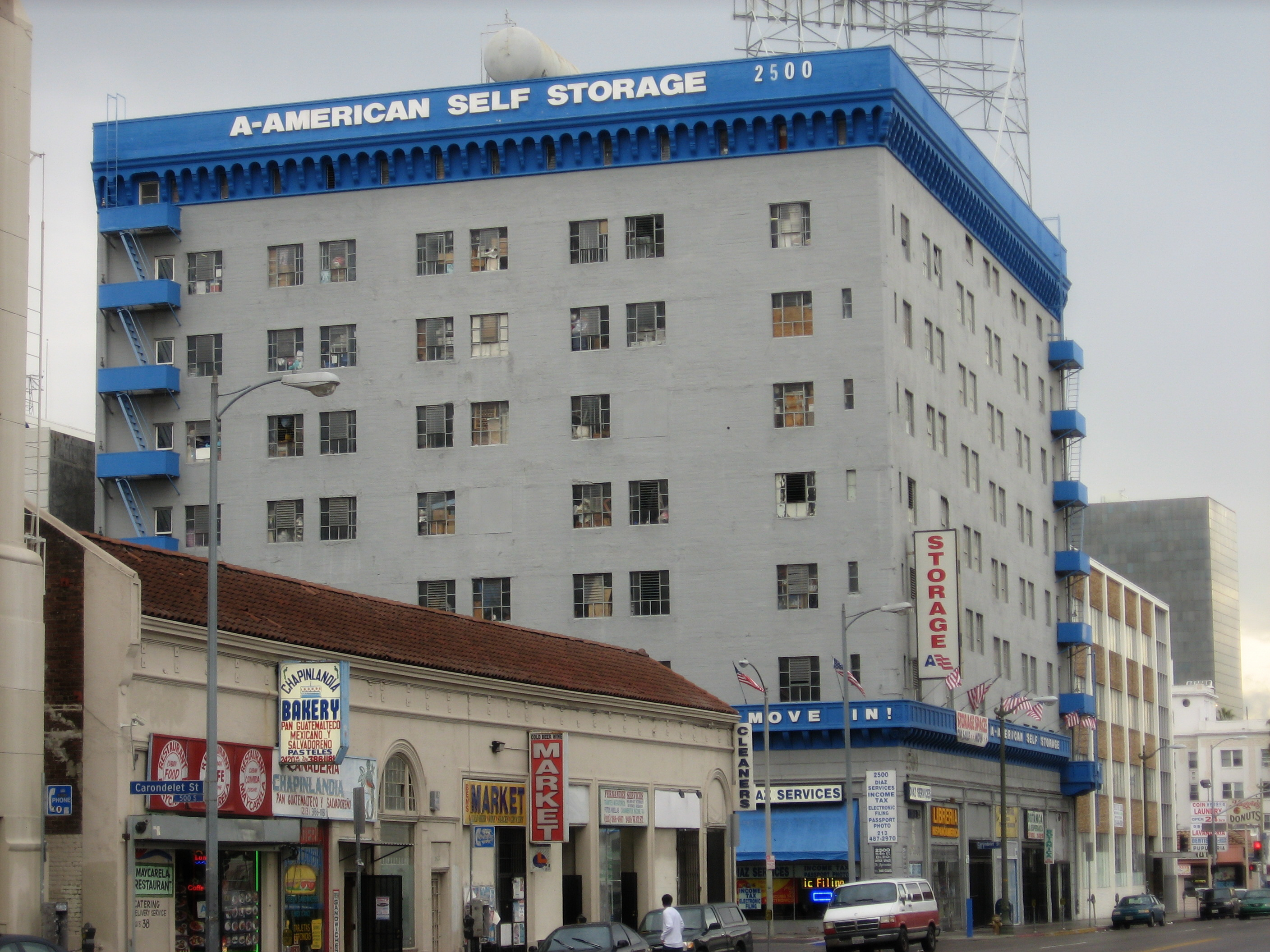 American Self Storage building in Los Angeles, California - Google Maps - Google Earth